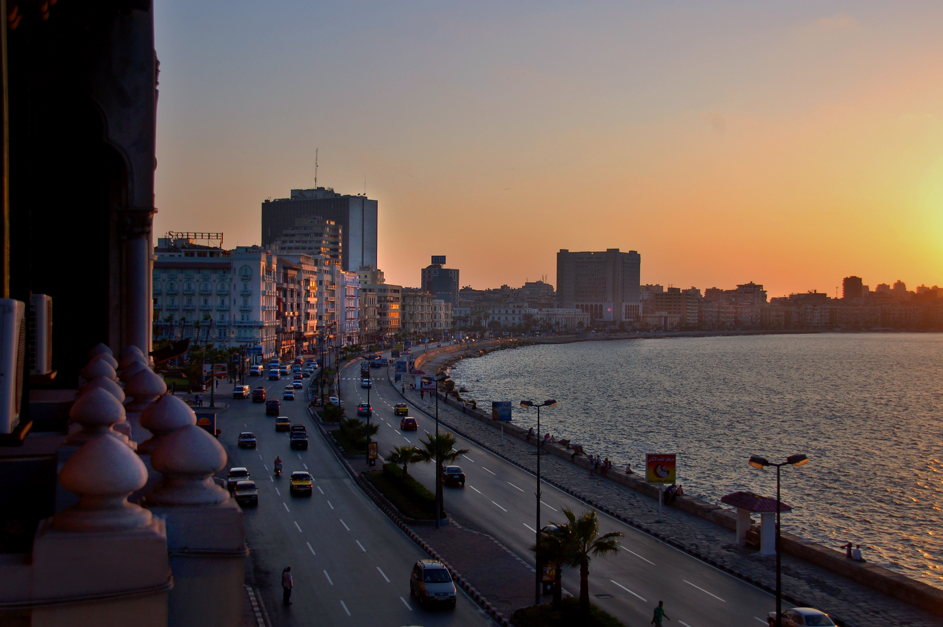 Sunset illuminates the promenade of Alexandria's waterfront. A welcome change from the heat and dust of Cairo.